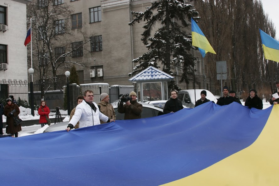 Mykhaylo Svystovych in action of "Remember about gas — do not buy Russian goods!" campaign near Embassy of Russia in Kyiv, Ukraine.